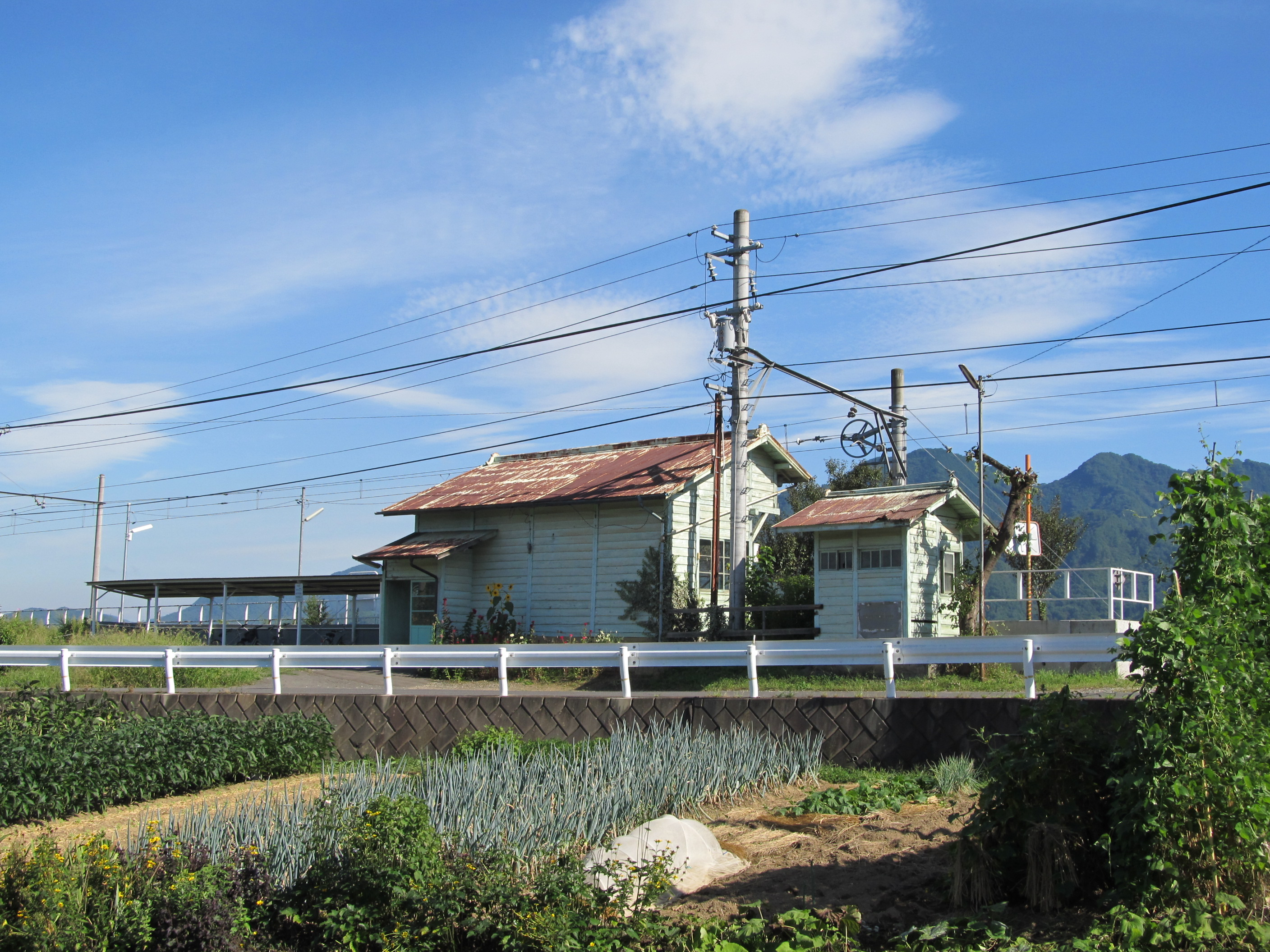 Ueda Electric Railway Bessho Line Yagisawa Station Building